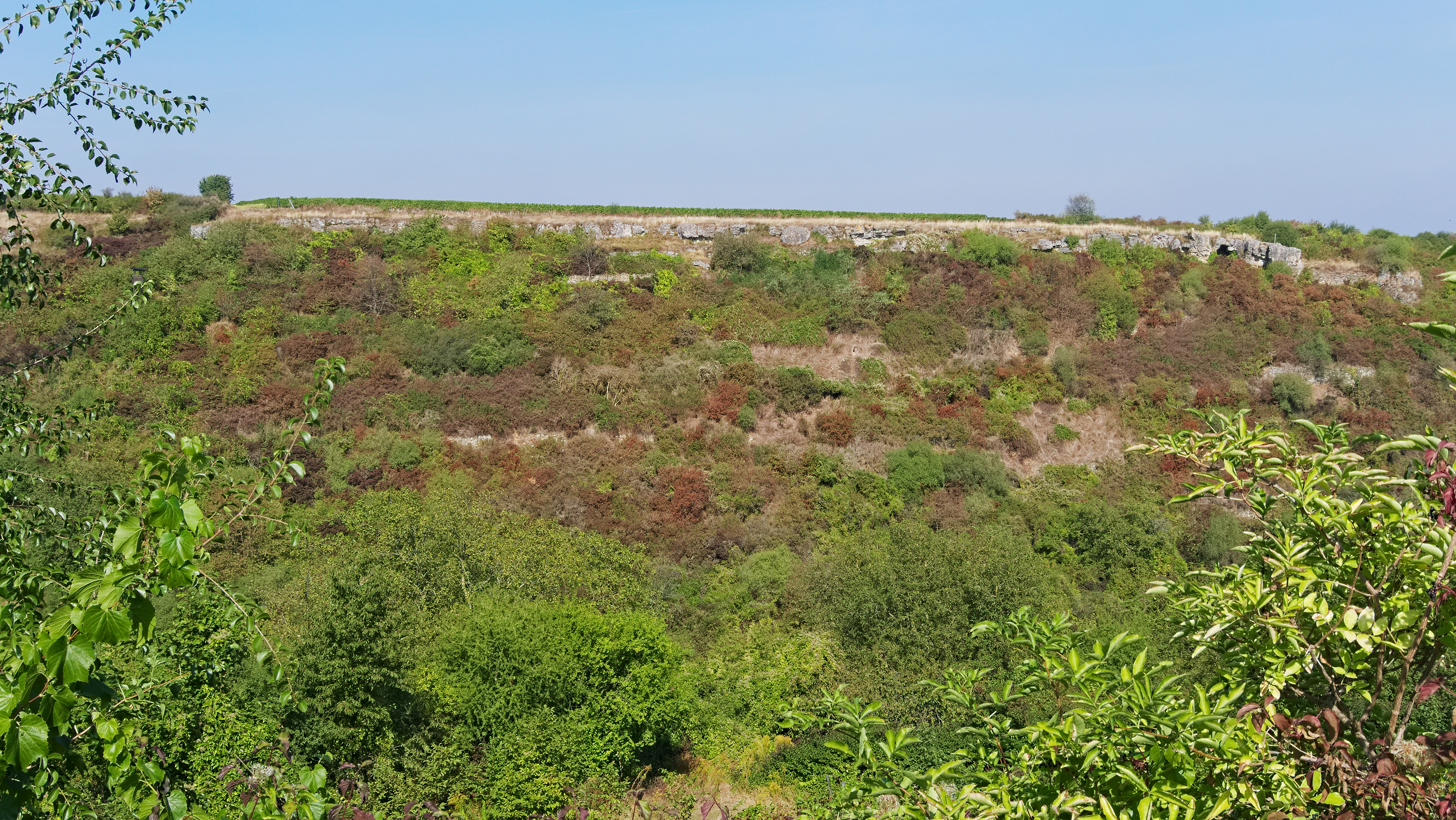 Nature reserve Felsenberg-Berntal, Leistadt, Rhineland-Palatinate, Germany.